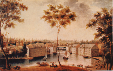 From U of Delaware Postcard archives, from an 1840 painting by Bass Otis who died in 1861.